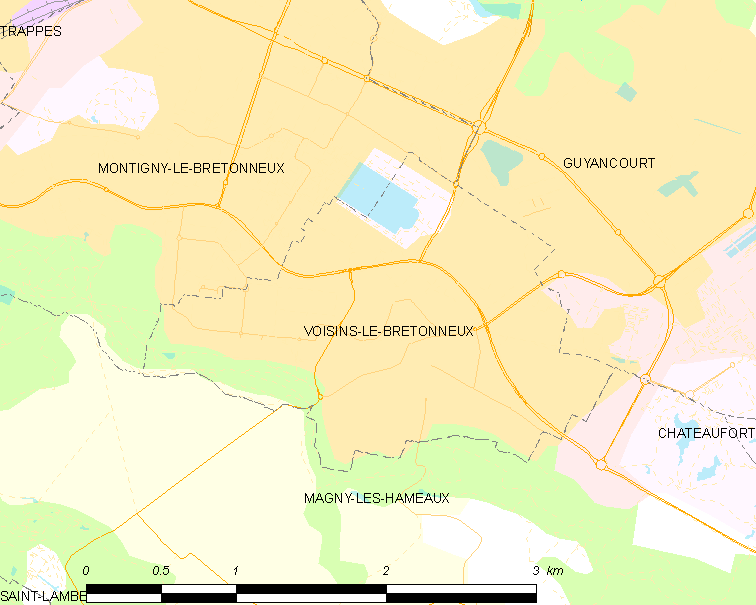 Map of French municipality Voisins-le-Bretonneux